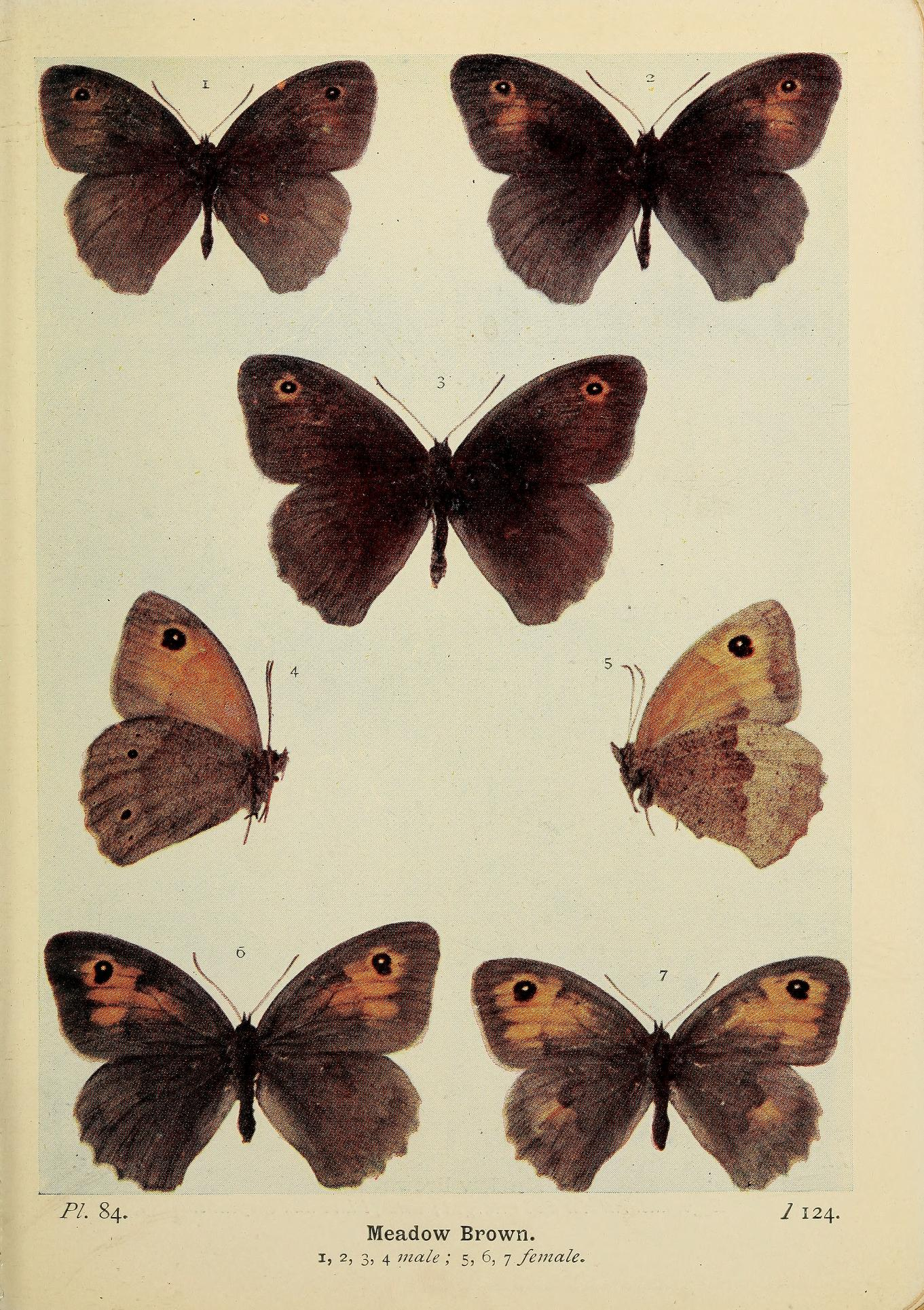 South1906Plate84